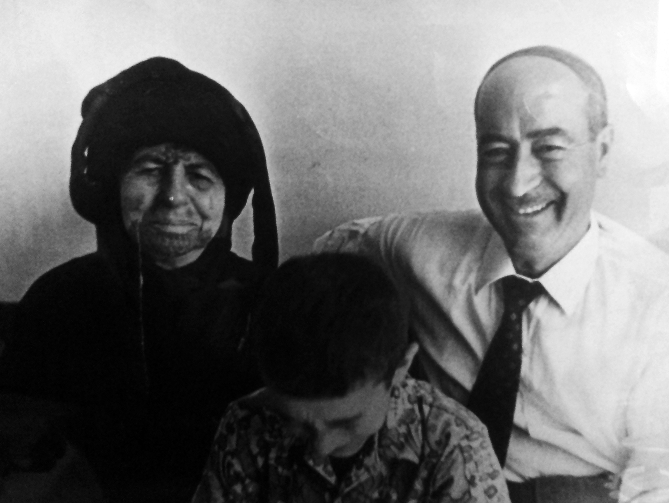 Historian Suleiman Mousa and his mother Farha Al-Nasser in August 1972.